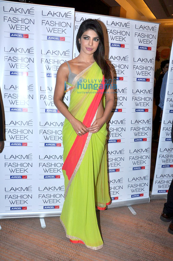 Priyanka Chopra at Lakme Fashion Week 2013 - Day 1